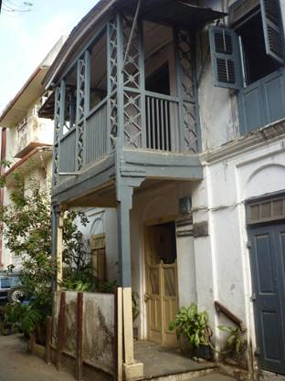 Khotachiwadi - Architectural details